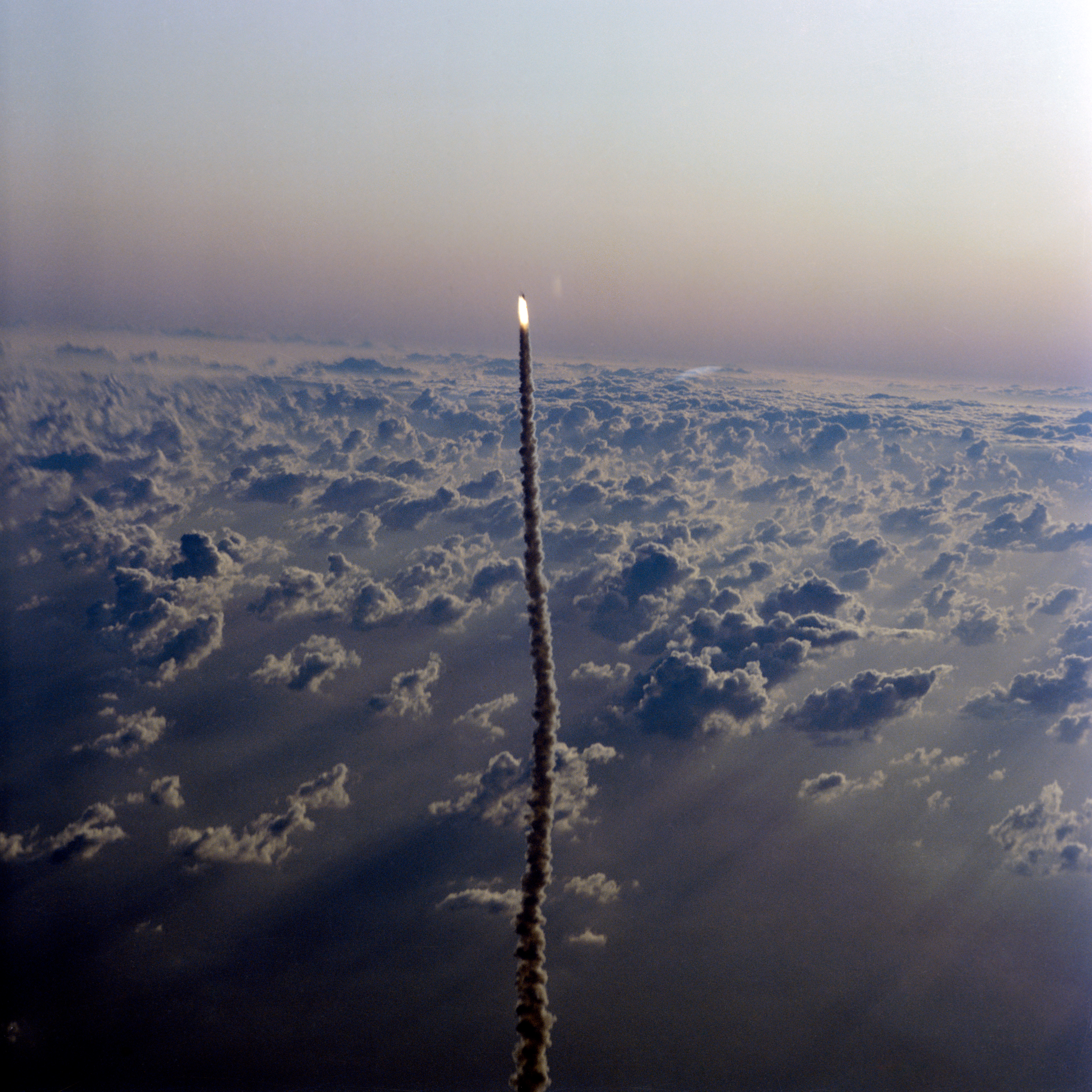 Aerial view of the STS-5 launch from T-38 chase aircraft